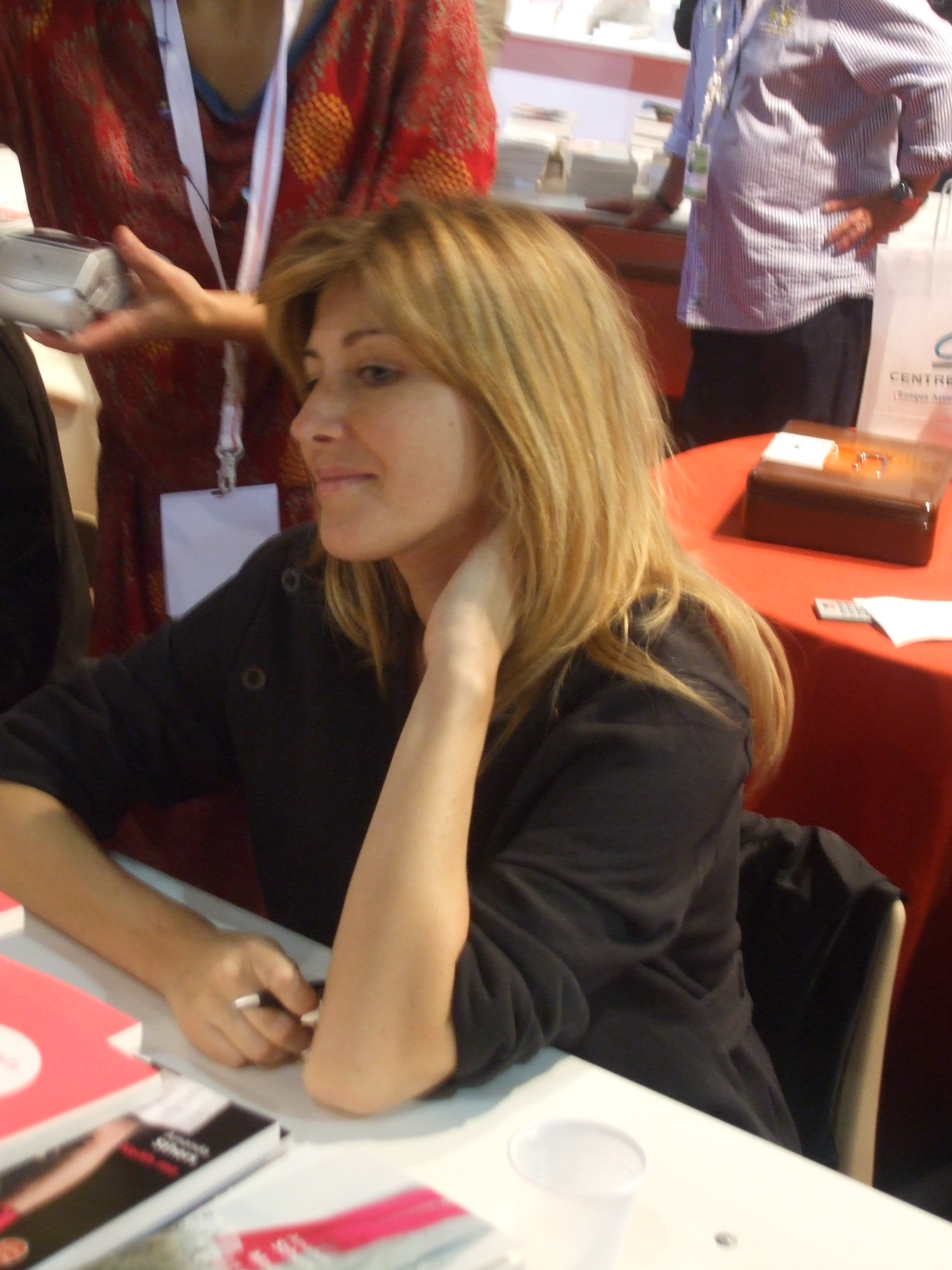 Amanda Sthers, french writer, Brive la Gaillarde book fair, France, 2010 11 06